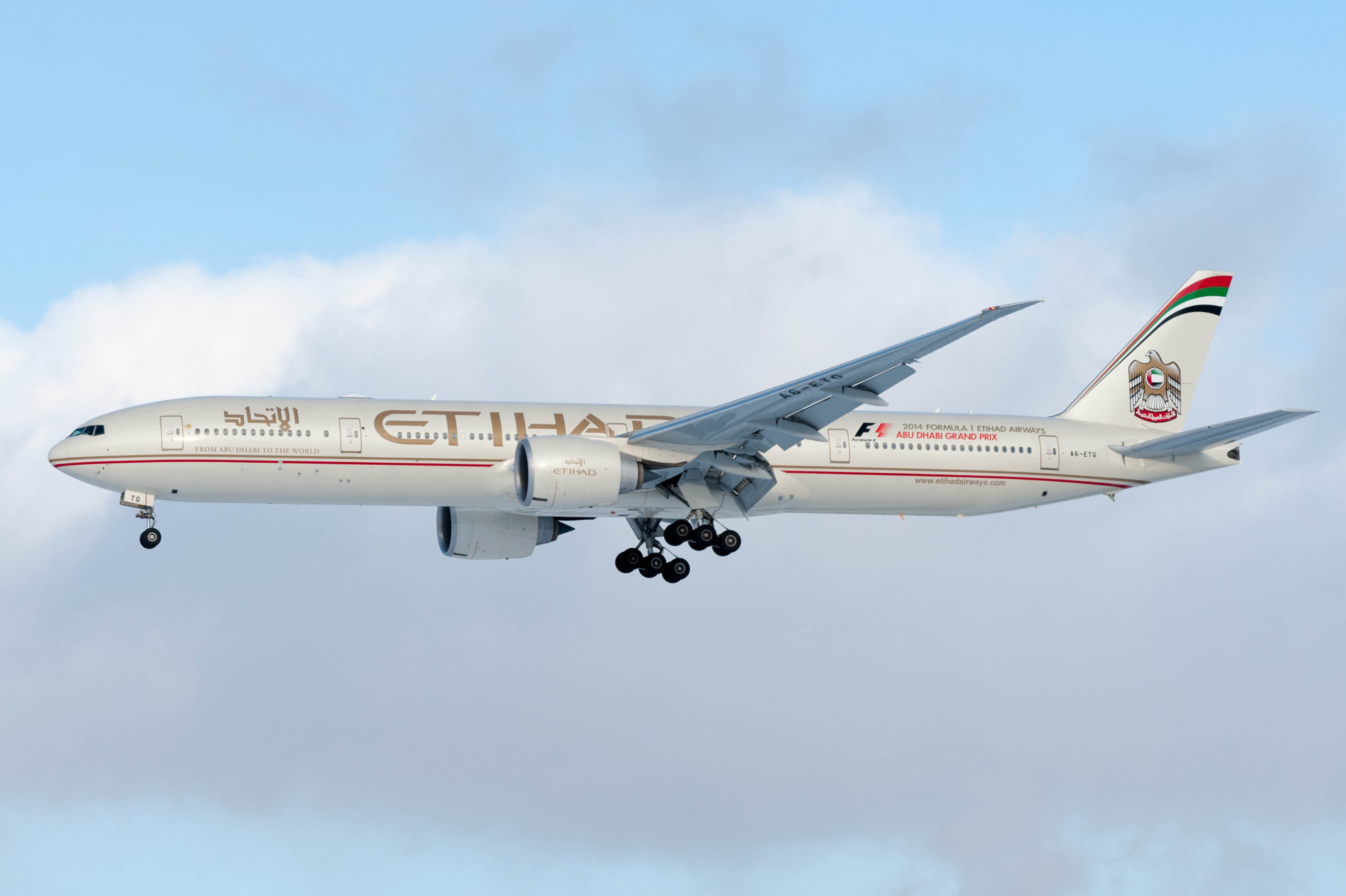 Arriving into cold and snowy Toronto-Pearson.